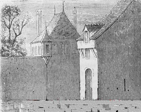 A second version of the same image: the inner court of the arsenal of Paris. It's a scanning with a higher resolution, so we get a more clear view of the court. The basic document is the fig. 123 from the library of the arsenal. My purpose was to present the working environment of Cugnot. At those times the artillery arsenal was also a workshop for metal works. So, Cugnot could order some components for his wagon, from the arsenal.